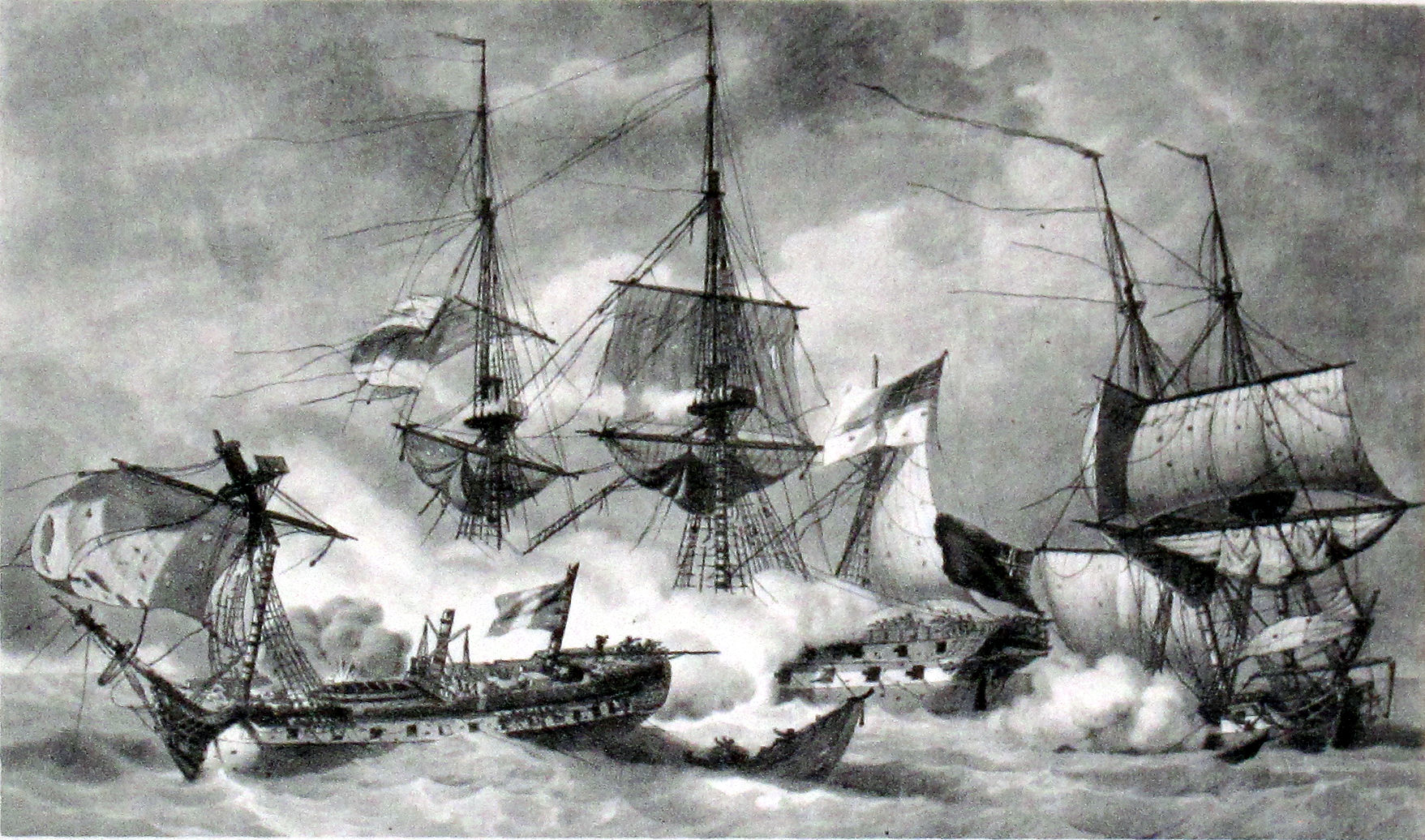 French frigate Loire